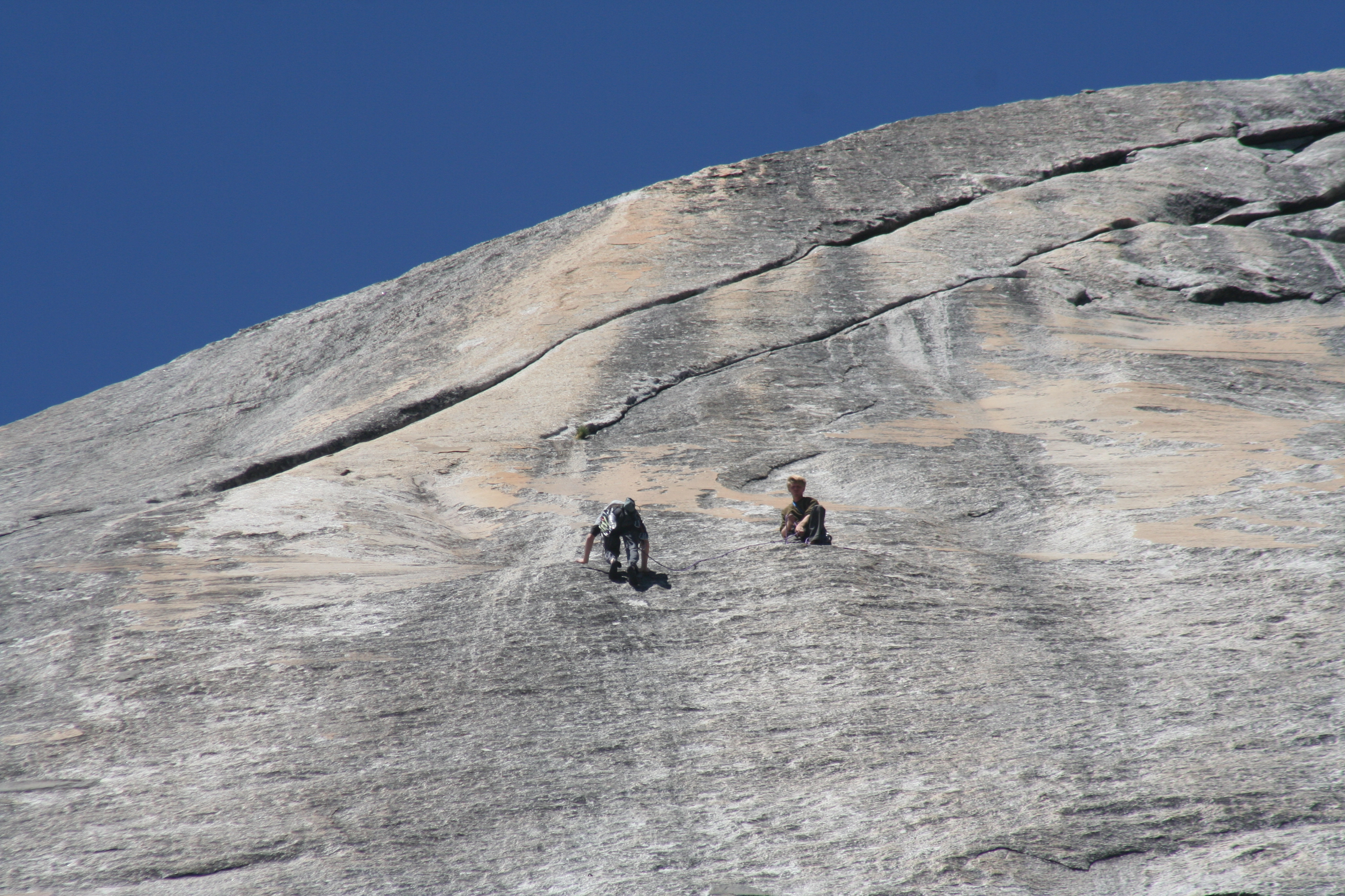 Rock climbers in Yosemite National Park